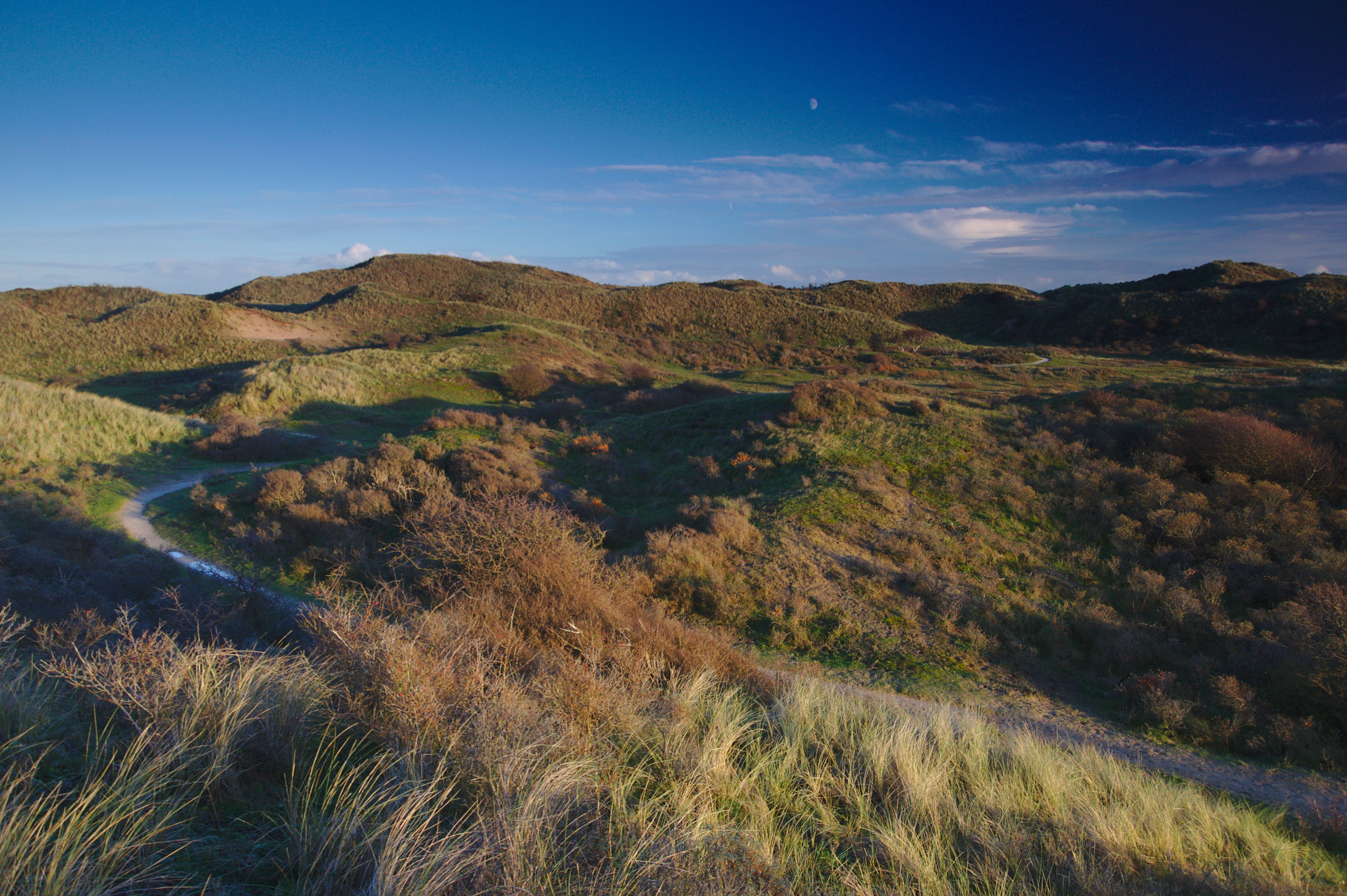 National park Zuid-Kennemerland